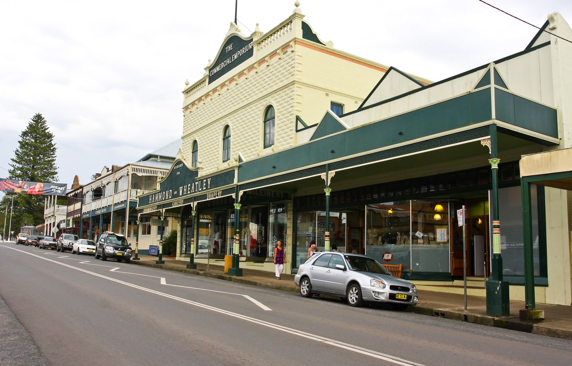 Belligen Main Street